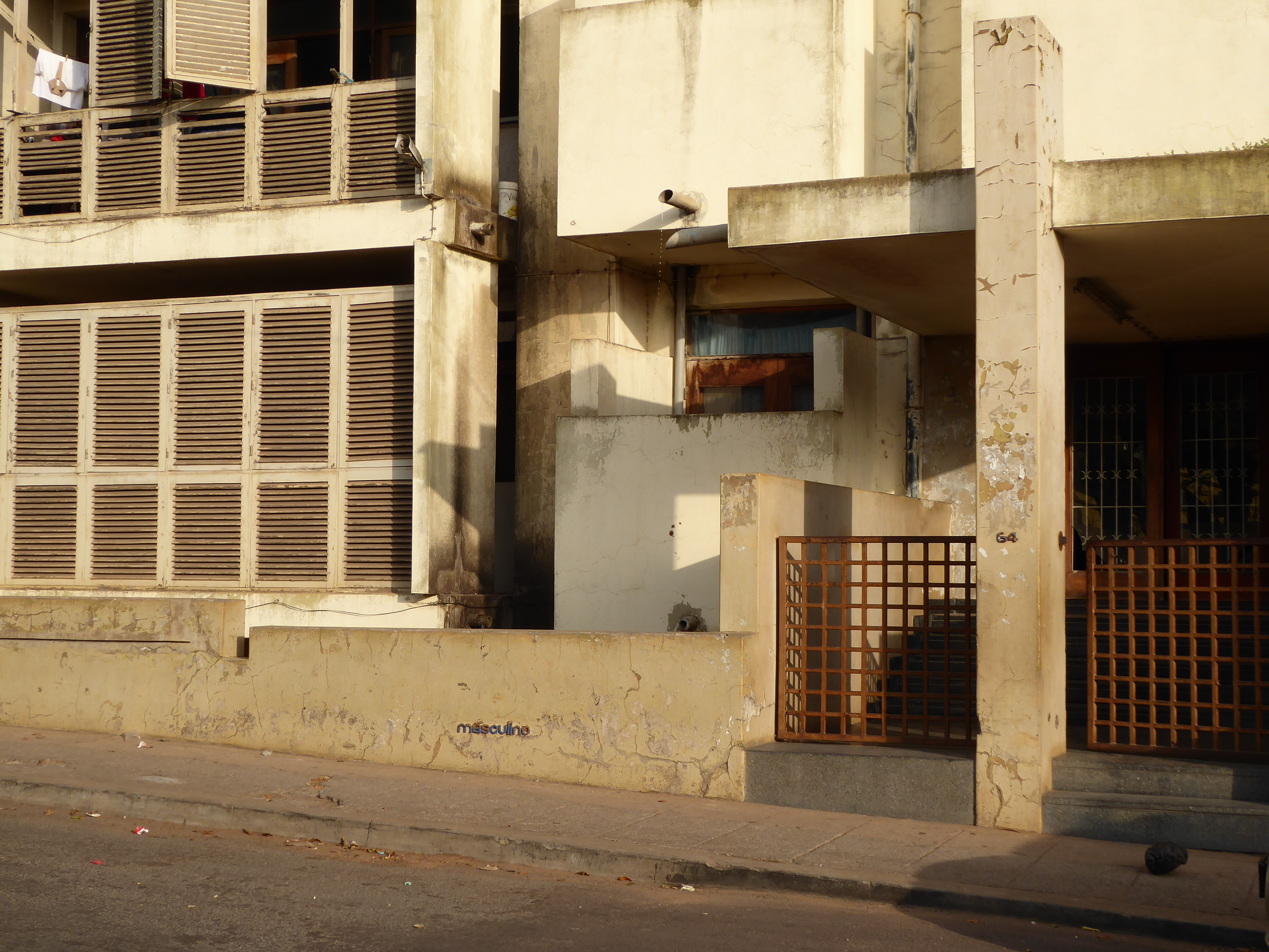 Students' house Khovo Lar, Rua Henri Junod, Maputo, Mozambique